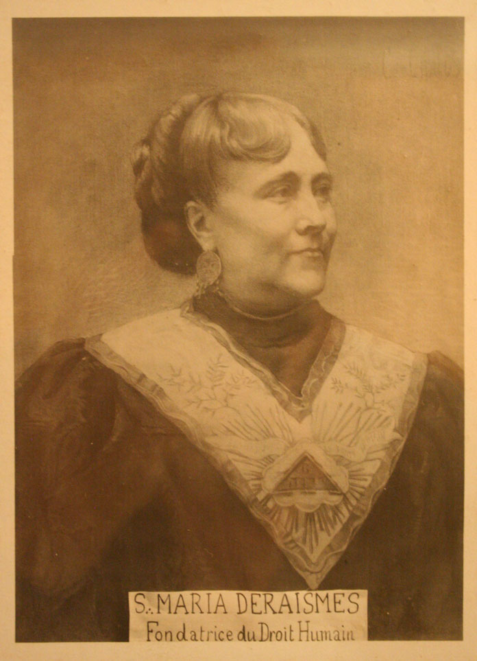 An old picture of Maria Deraismes, a founder of Co-Freemasonry, Le Droit Humain. From my Masonic hall, rephotographed by me (Fuzzypeg). The original artist is unknown, but the image is very old, and should pass the 100-years-since-author's-death test.